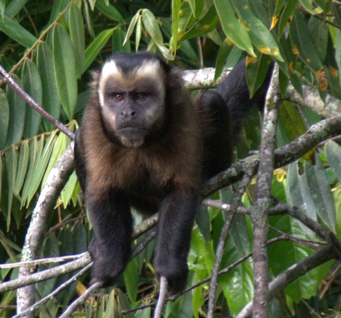 near Cock of the Rock Lodge, Manu Biosphere Reserve, Peru